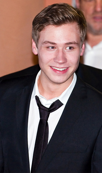 David Kross leaving the premiere of "The Reader" at the 59th Berlin International Film Festival